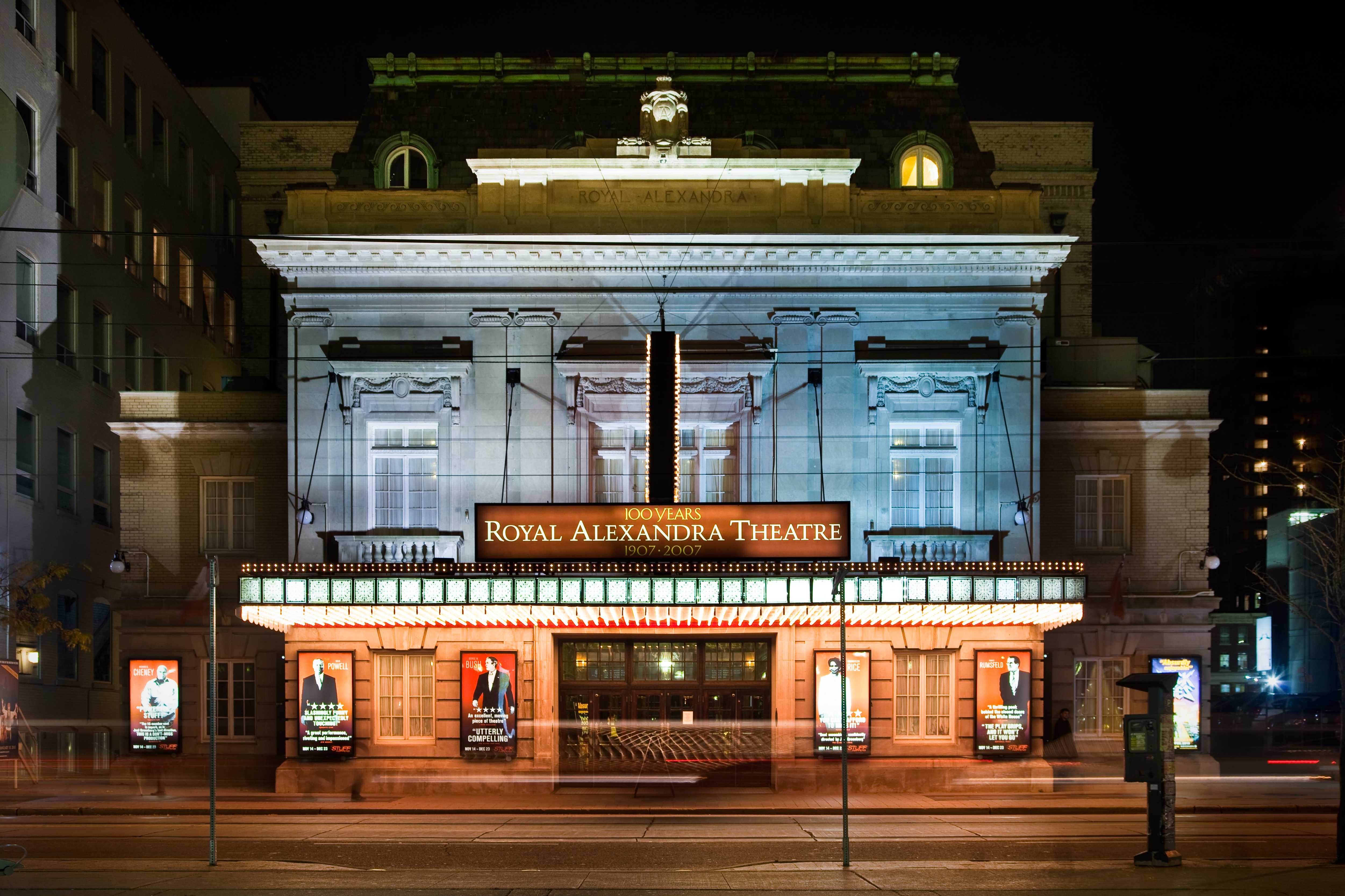 Royal Alexandra Theatre. The theatre was built in 1907 and continues to operate to the present. It was named after Queen Alexandra who was the wife of King Edward VII; she is also the great grandmother of Queen Elizabeth II. Toronto, Ontario, Canada